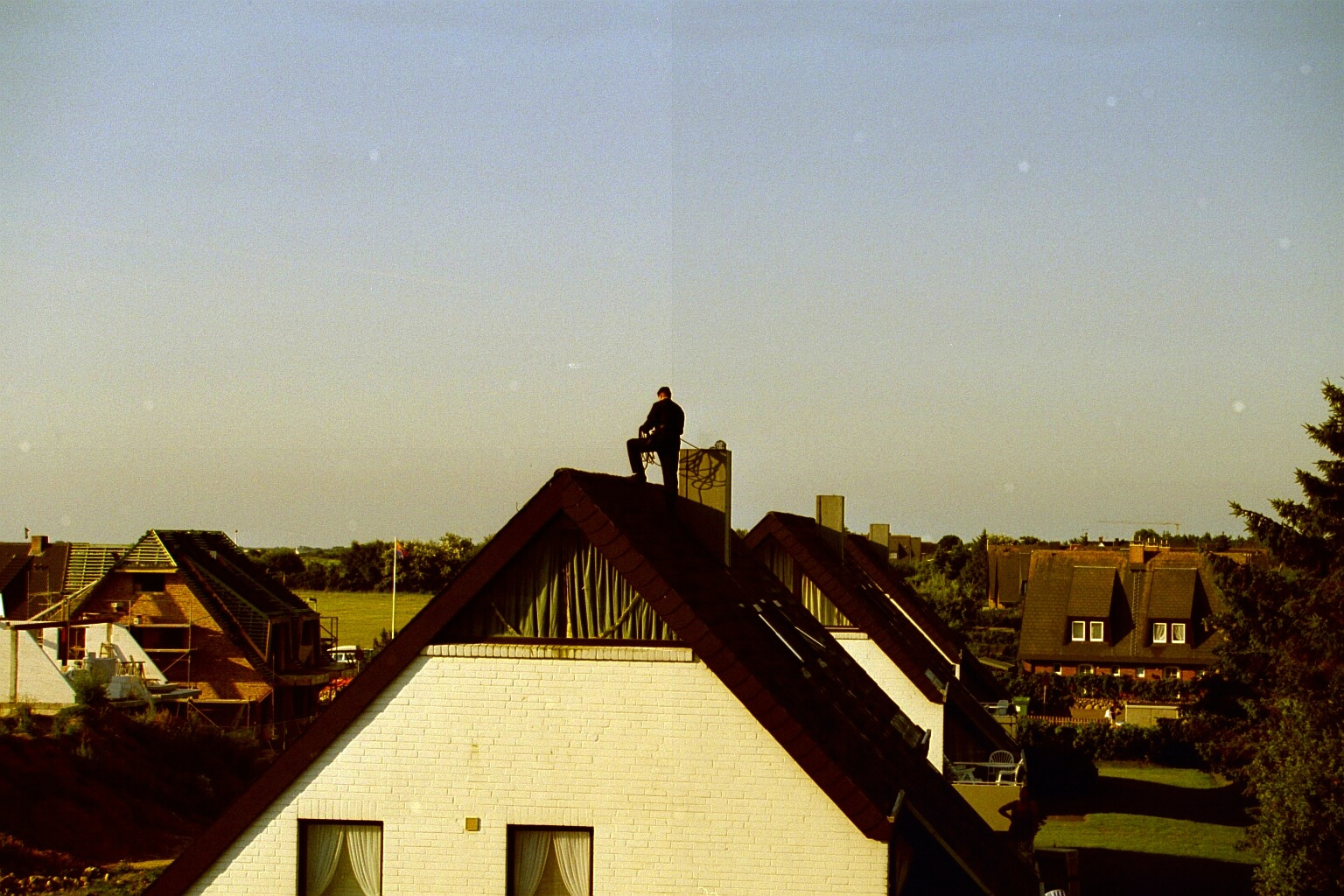 Chimney sweep at work (Wenningstedt, Sylt, Germany)